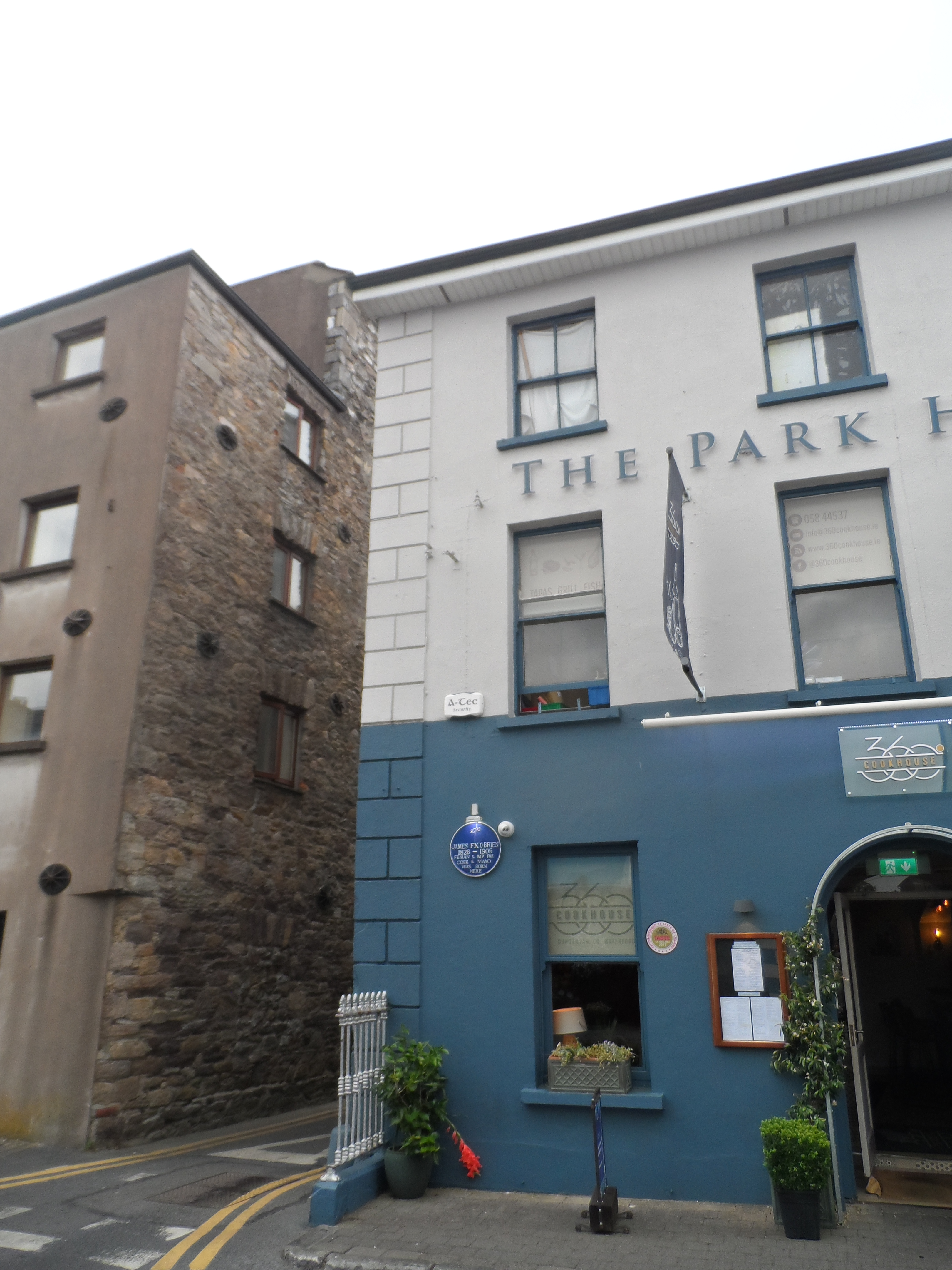 The Park hotel